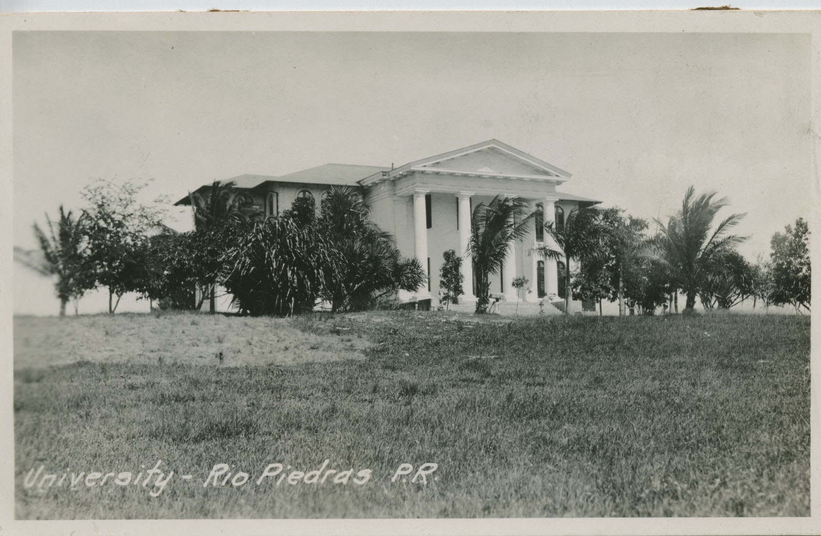 Attilio Moscioni, Real-photo postcard. Gleach/Santiago-Irizarry Collection